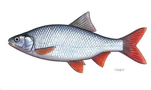 Danube Roach (Rutilus virgo).